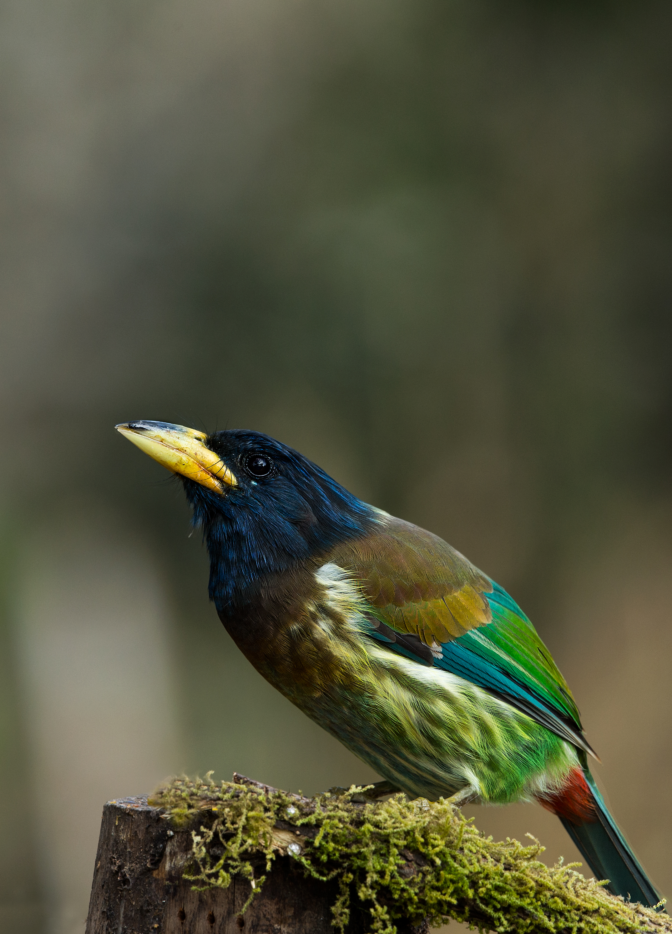 Great Barbet Psilopogon virens, at Sattal in Uttarakhand, India.